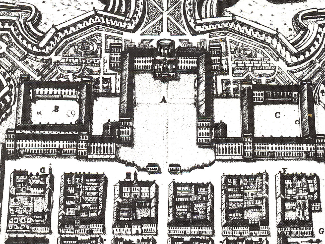 J. A. Baertels: View of of Schloss Mannheim, Germany; 1758